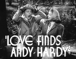 Cropped screenshot of Mickey Rooney and Lana Turner from the trailer for the film Love Finds Andy Hardy.